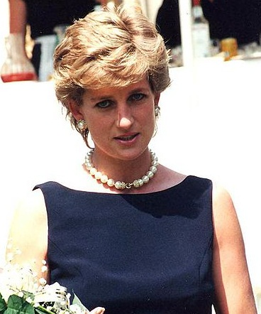 Diana, Princess of Wales while at The Leonardo Prize ceremony in 1995